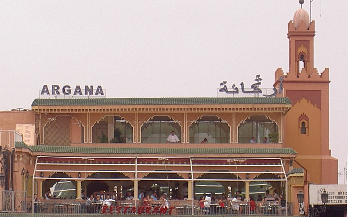 Top floors of Cafe Argana in Marrakech, cropped and rotated from original to highlight parallel Latin/Arabic renderings of name.